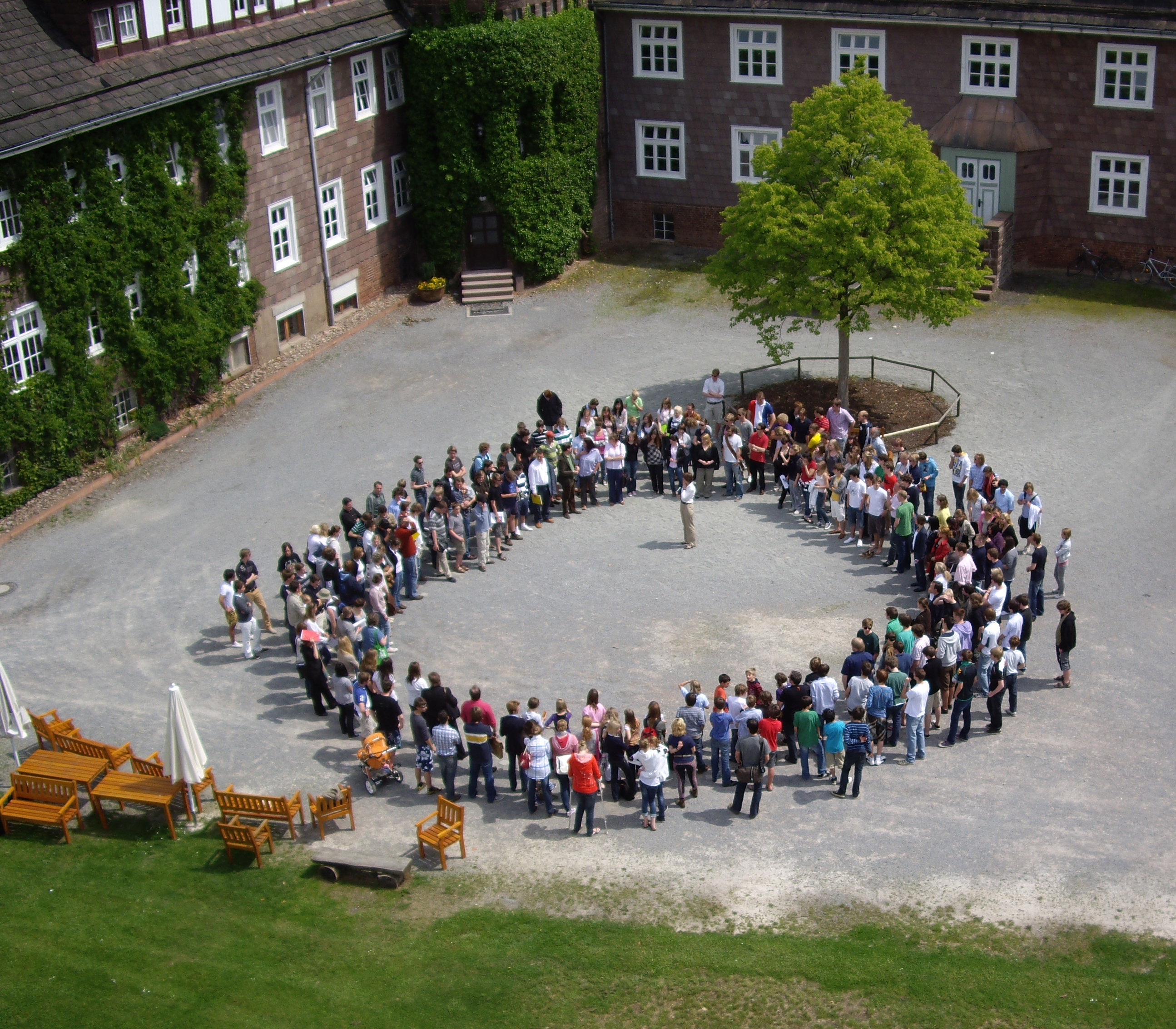 Foto of the daily assambly of the LSH